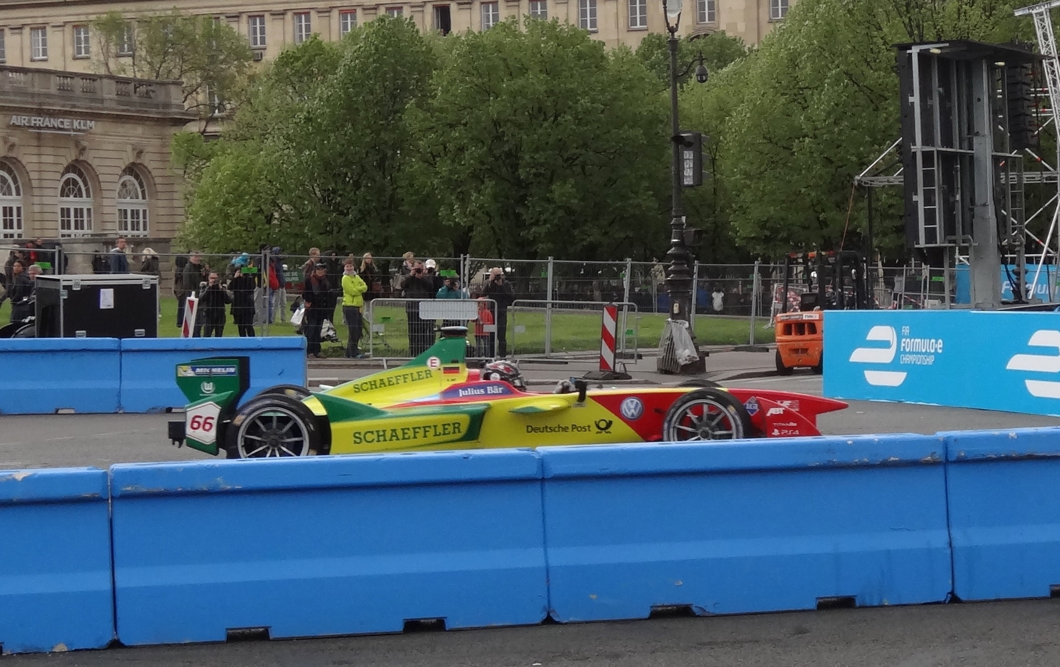 Daniel Abt Formula E